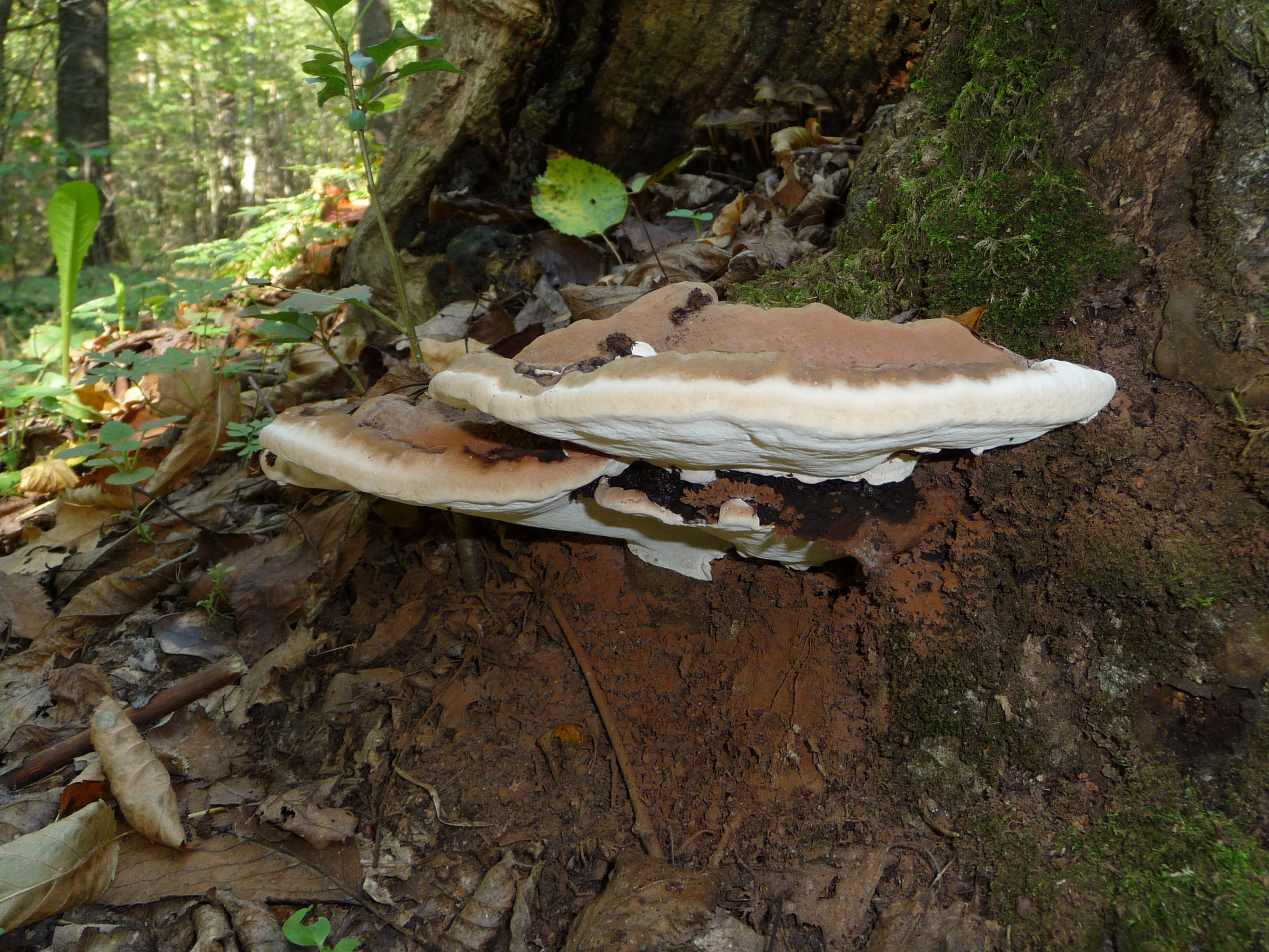 The Artist's Conk (Ganoderma applanatum) on an oak stub. The rusty brown spore dust is nicely visible. Ukraine.